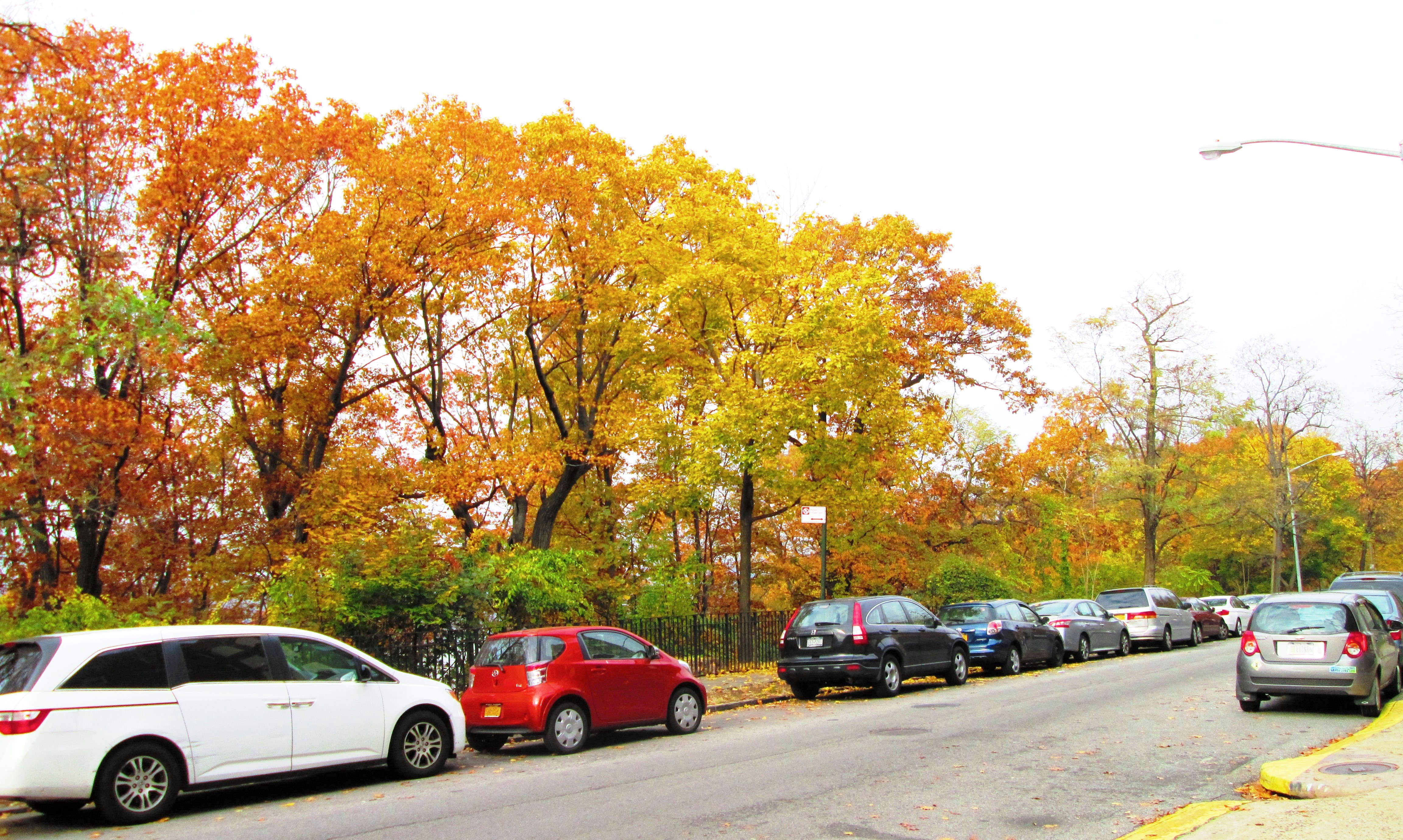 Fall foliage in the strip of Fort Tryon Park along Cabrini Boulevard at West 190th Street in the Hudson Heights neighborhood on Manhattan, New York City. This area of the park is now, as of 2017, called "Cabrini Woods".